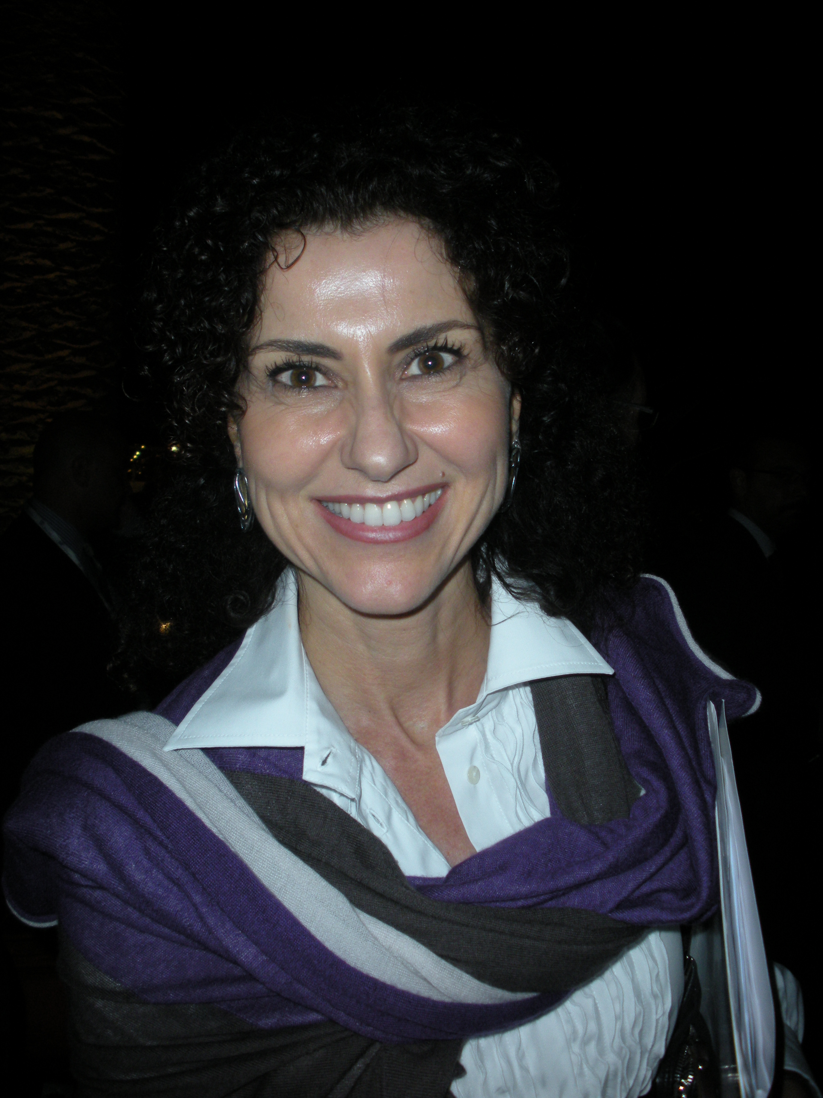 Luisa Todini, italian politician and businesswoman.